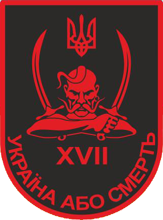 17th motorized infantry battalion SSI (Ukraine)